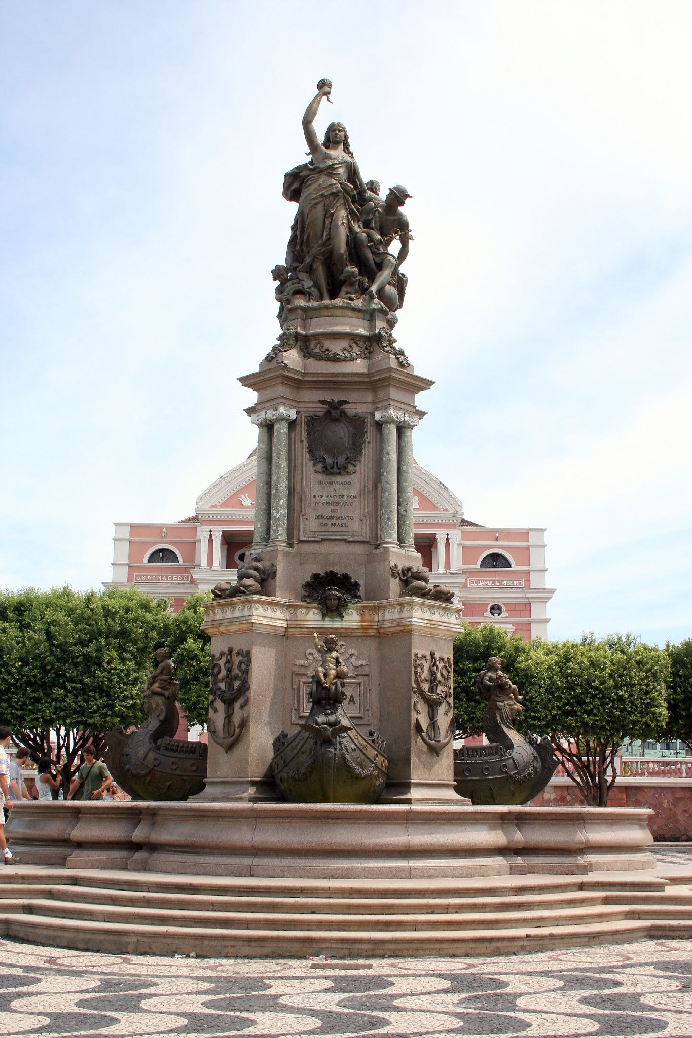 This monument was erected in 1899 in memory of the opening of the Amazon River to world trade, decreed by Emperor D. Pedro II on December 7, 1866.